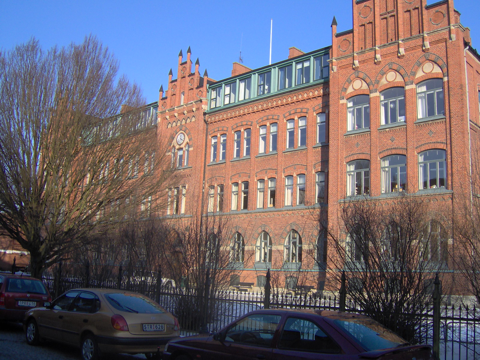 Cathedral School, Lund, taken by Andreas Vilén, March 6th 2005